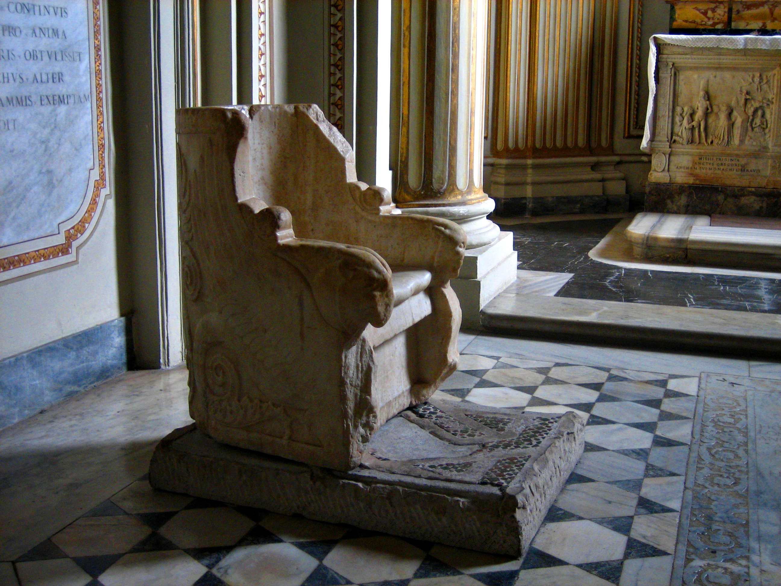 San Gregorio al Celio. This is unquestionably an ancient marble chair, but it is not certain that it came from the house of St Gregory that lies below the church. Its style dates it to the first century AD and it is possible that it was the imperial throne from the Emperor's box in the Colosseum. It rests on a piece of Cosmatesque inlay.